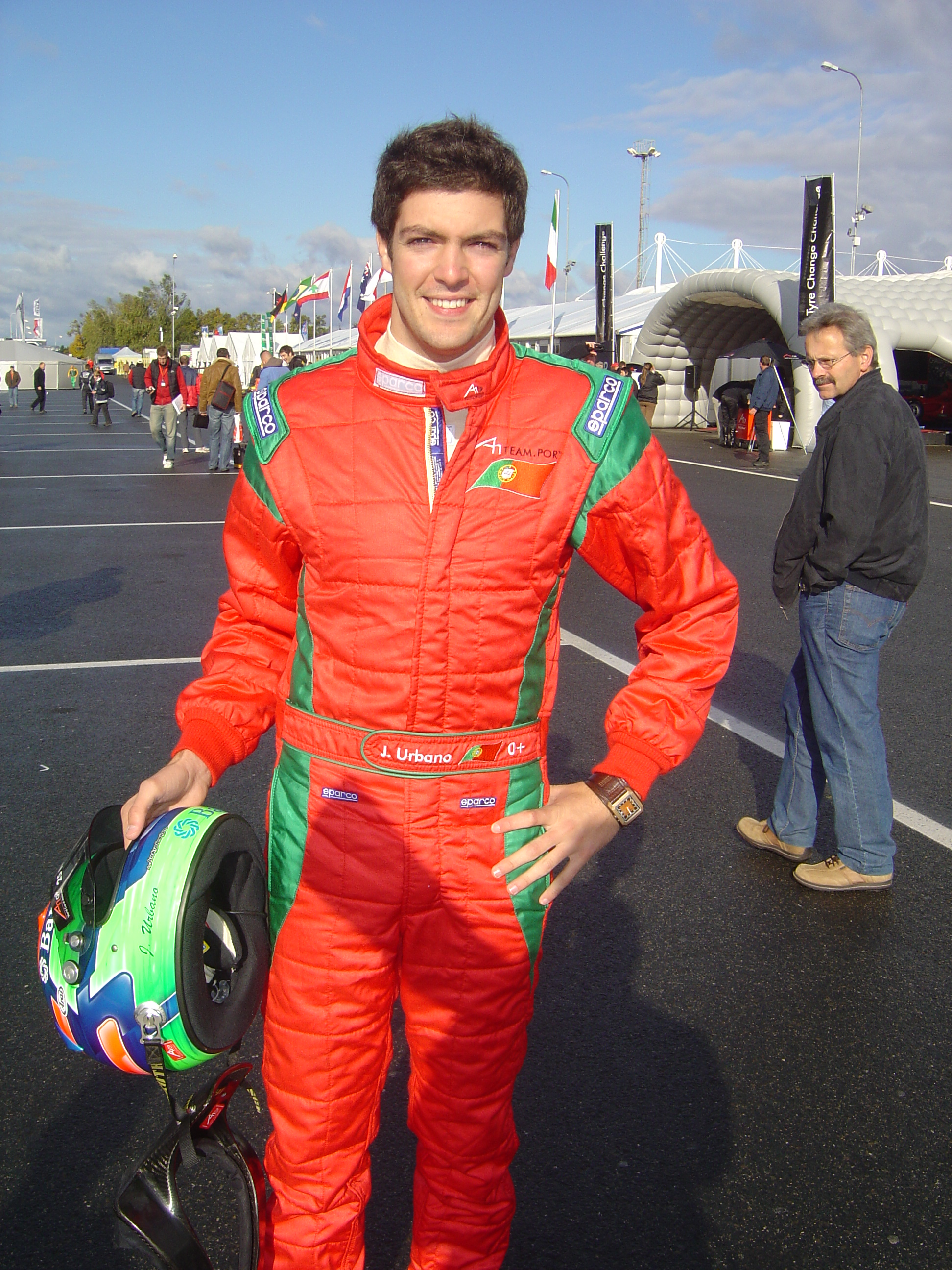 João Urbano: the photo was taken during 2007's A1GP race weekend at Brno